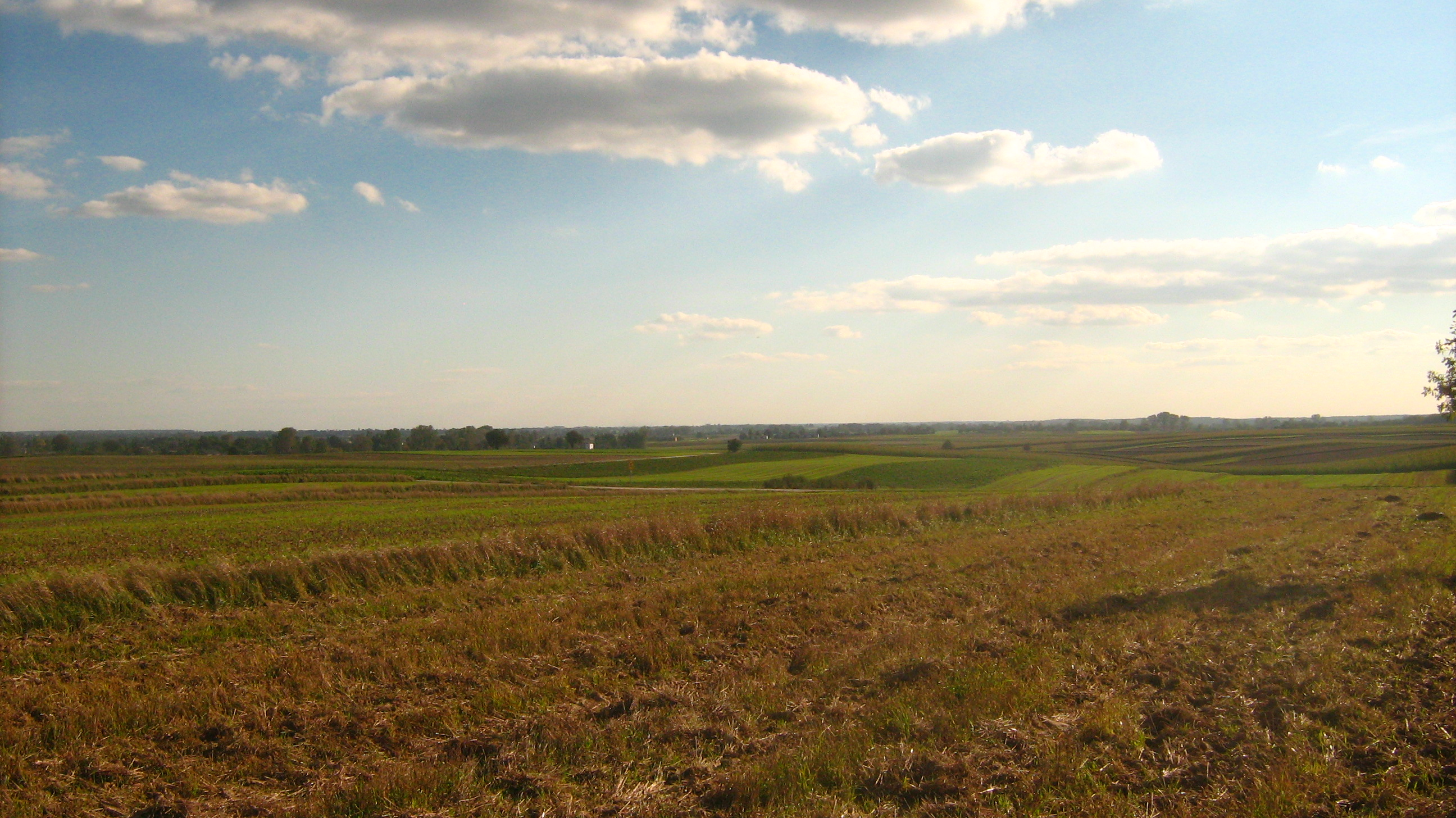 Landscape in Ługów